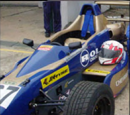 This Photograph was taken by me in Chennai MMSC track pits.